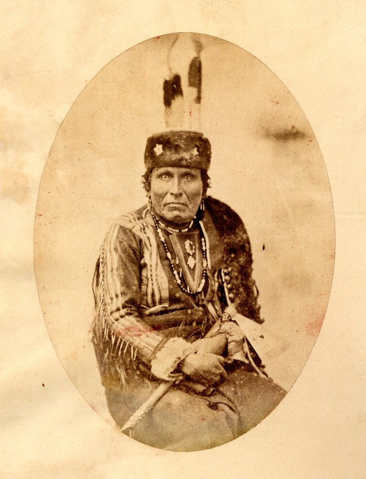 "Studio portrait of Man and Chief (Pi-ta-ne-sha- a-du), a Pawnee chief," albumen print, by the American photographer John H. Fitzgibbon, taken at St. Louis, Missouri, in approximately 1850. 18.8 cm x 13.5 cm. Courtesy of the British Museum, London.